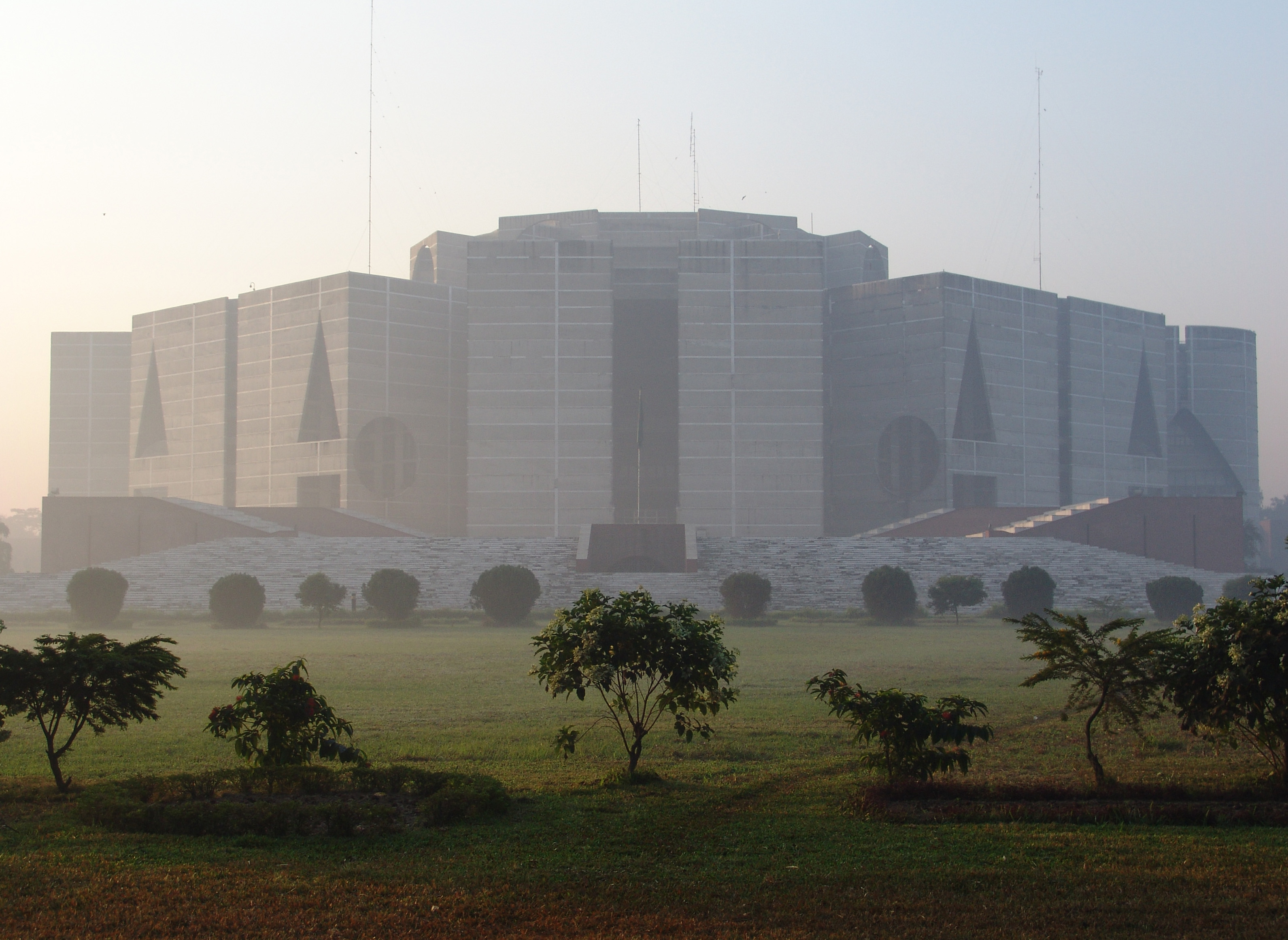 Jatiyo Sangsad Bhaban is the National Assembly of Bangladesh in the capital city Dhaka. This picture was taken during the sunrise of 01.12.2008.